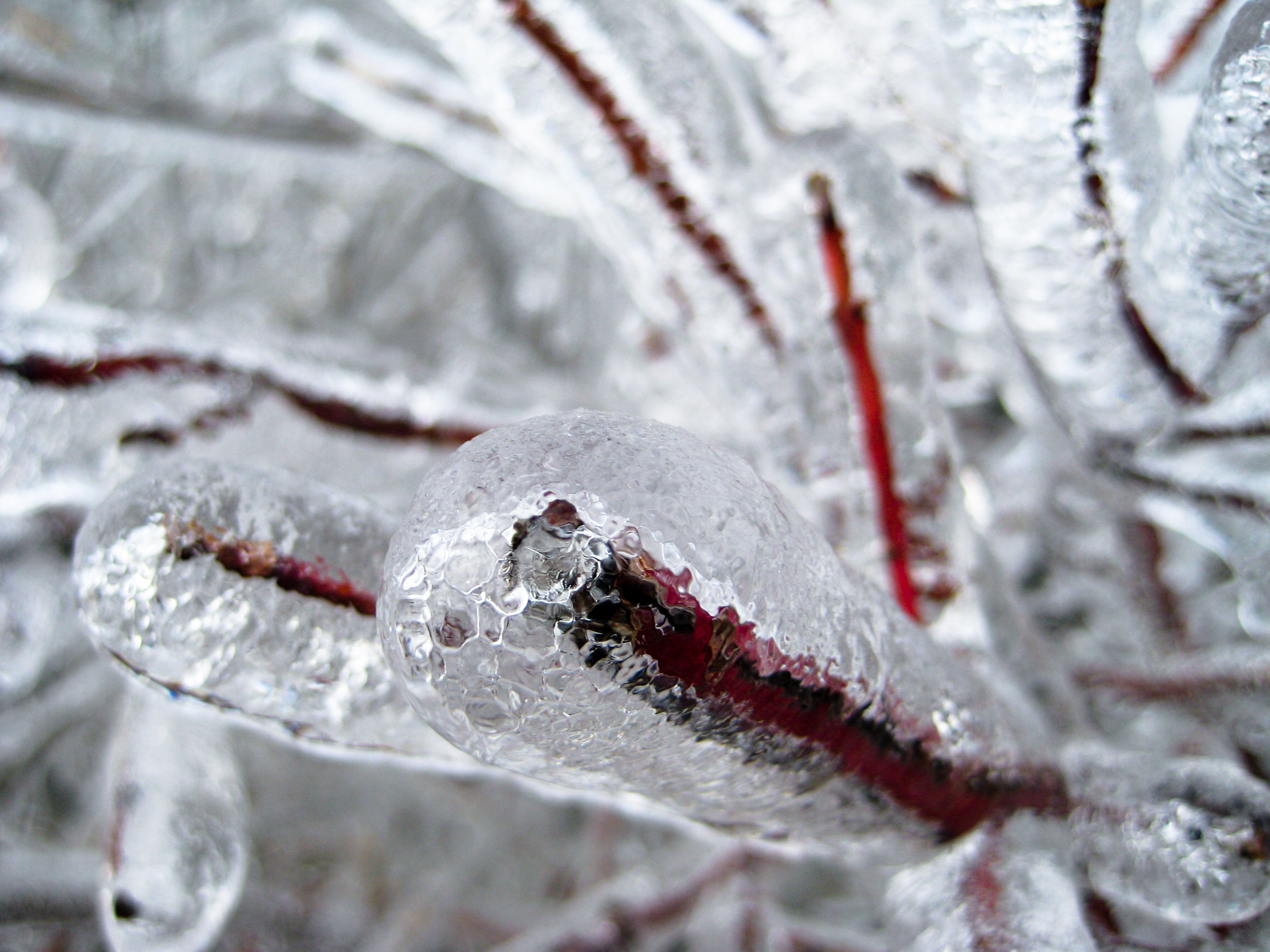 A shrub branch showing the formation of ice after an ice storm hit St. Joseph Missouri, December 2007.